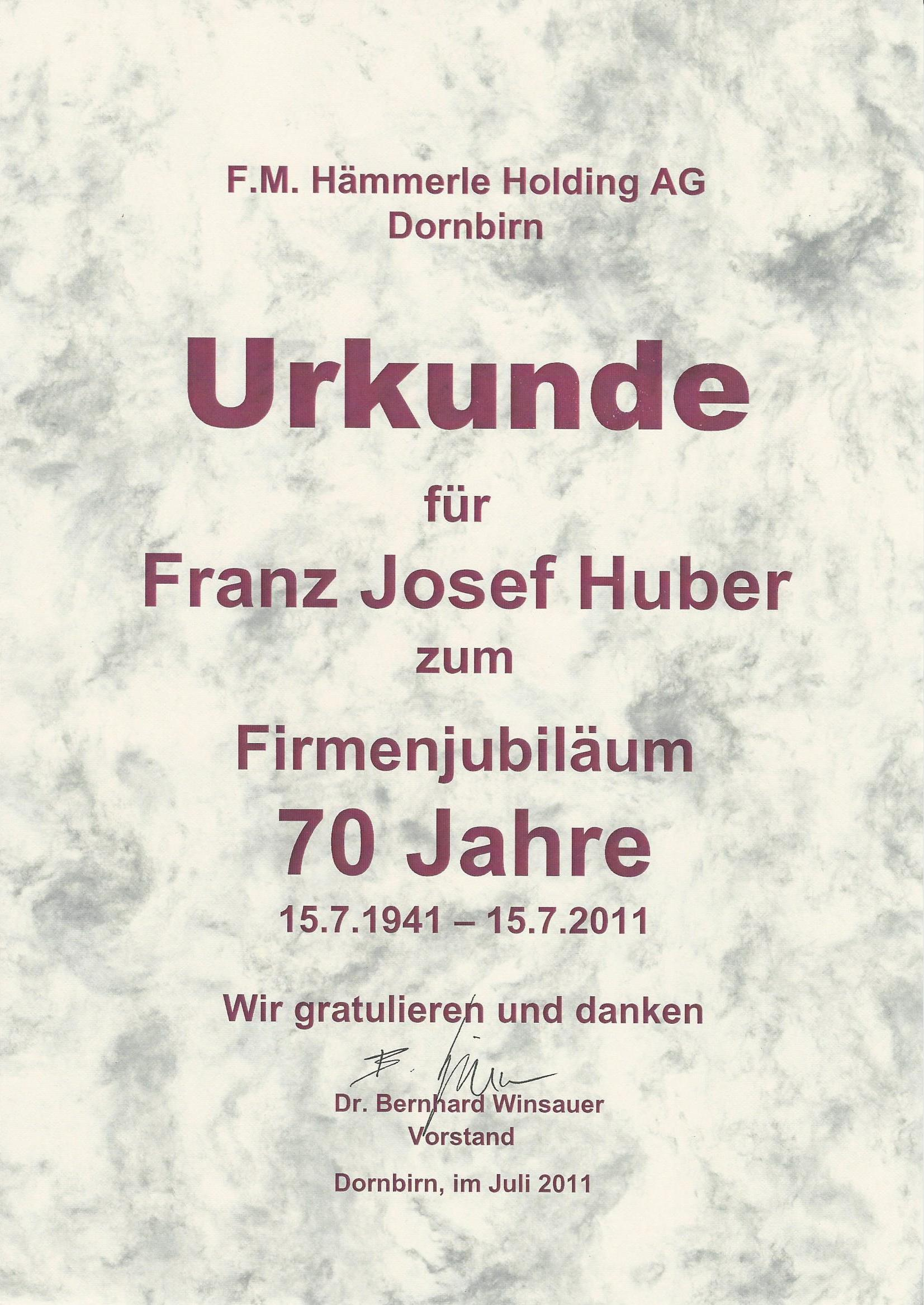 Honorary certificate for Franz Josef Huber on the occasion of the 70-year-old company affiliation to F. M. Hämmerle from July 2011